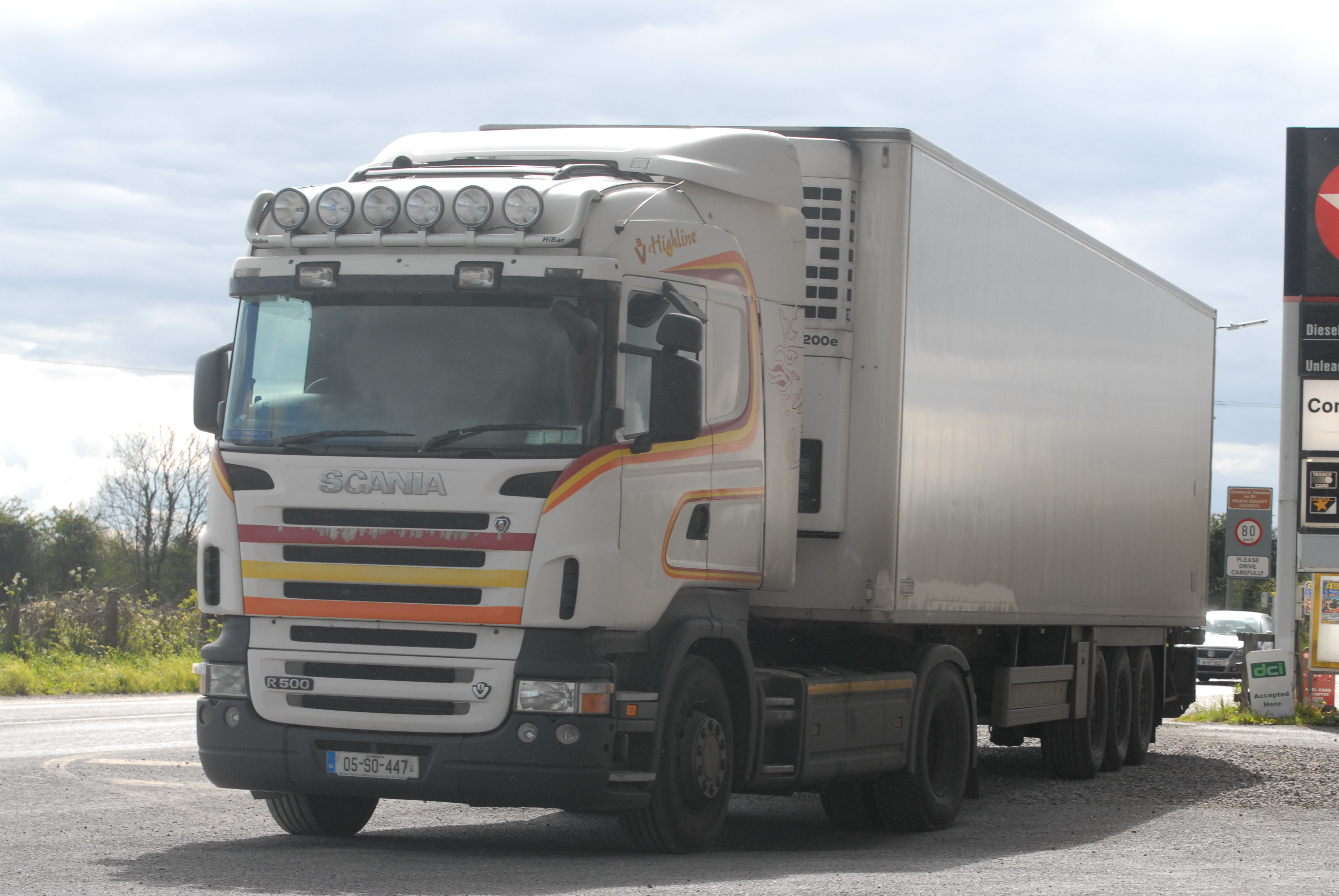 Pictured at Clonard, Co. Meath - May 2012 - Scania R500 pulls in - refrigerated trailer